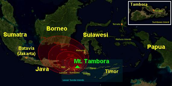 Map of April 5-11, 1815 Mount Tambora eruption, on the island of Sumbawa in Indonesia, with explosion path and fallout around the caldera. The red ring-areas are graduated bands of the thickness of volcanic ashfall. The explosion had 4 times the energy of the later Krakatoa eruption, in 1883. (Map is re-labeled with 14 & 12-size Arial font. The image is JPEG format, 9x times faster than the large PNG-format version, and is intended for use in frequently-read articles.) Source: The base map was taken from NASA picture :Image:Indonesia_BMNG.png and the isopach maps were traced from Oppenheimer (2003). Variation: :Image:1815 tambora explosion.png (12x slower file, small lettering).